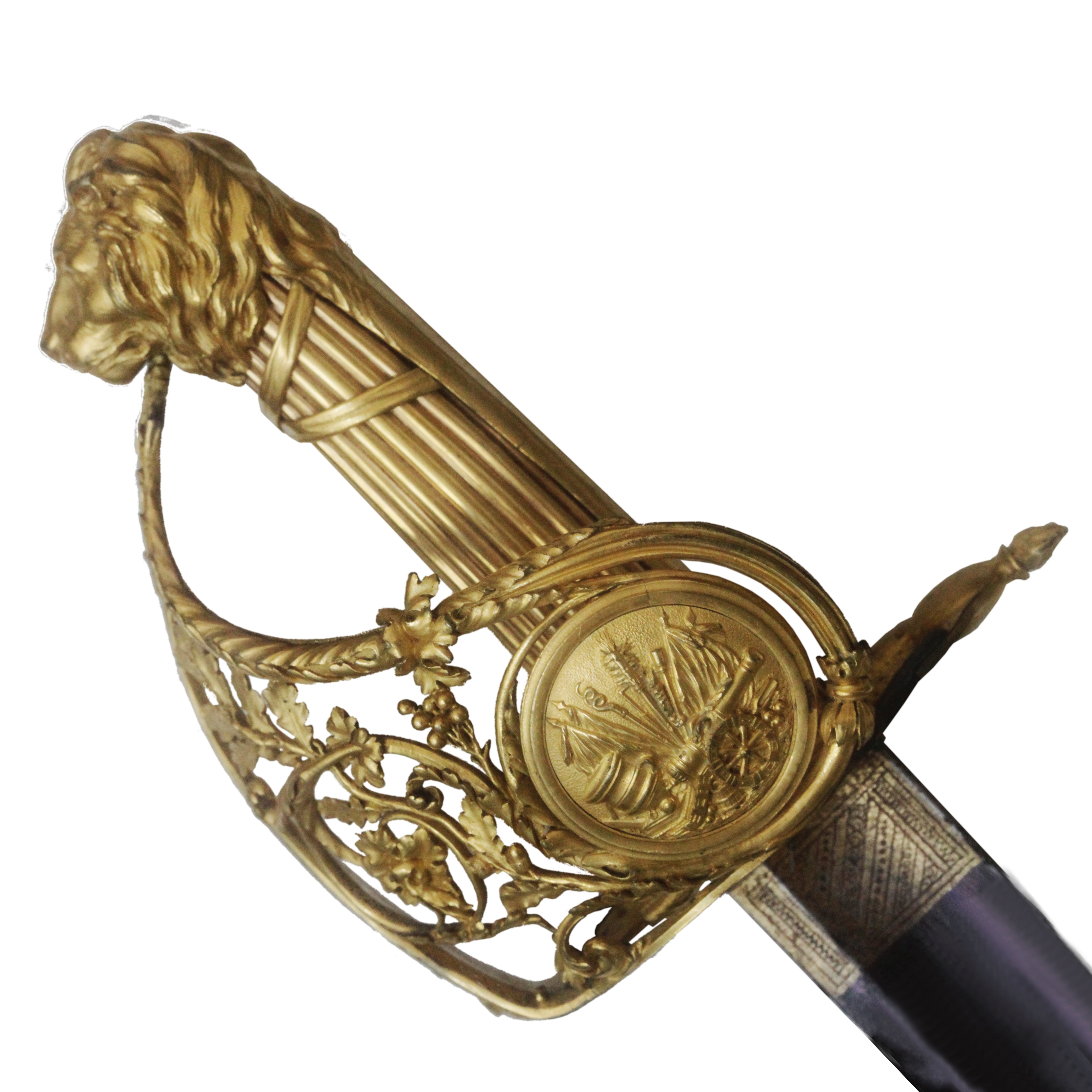 Sabre of the National Guard. Decorated with an artillery themed trophy. MRF 1989-93